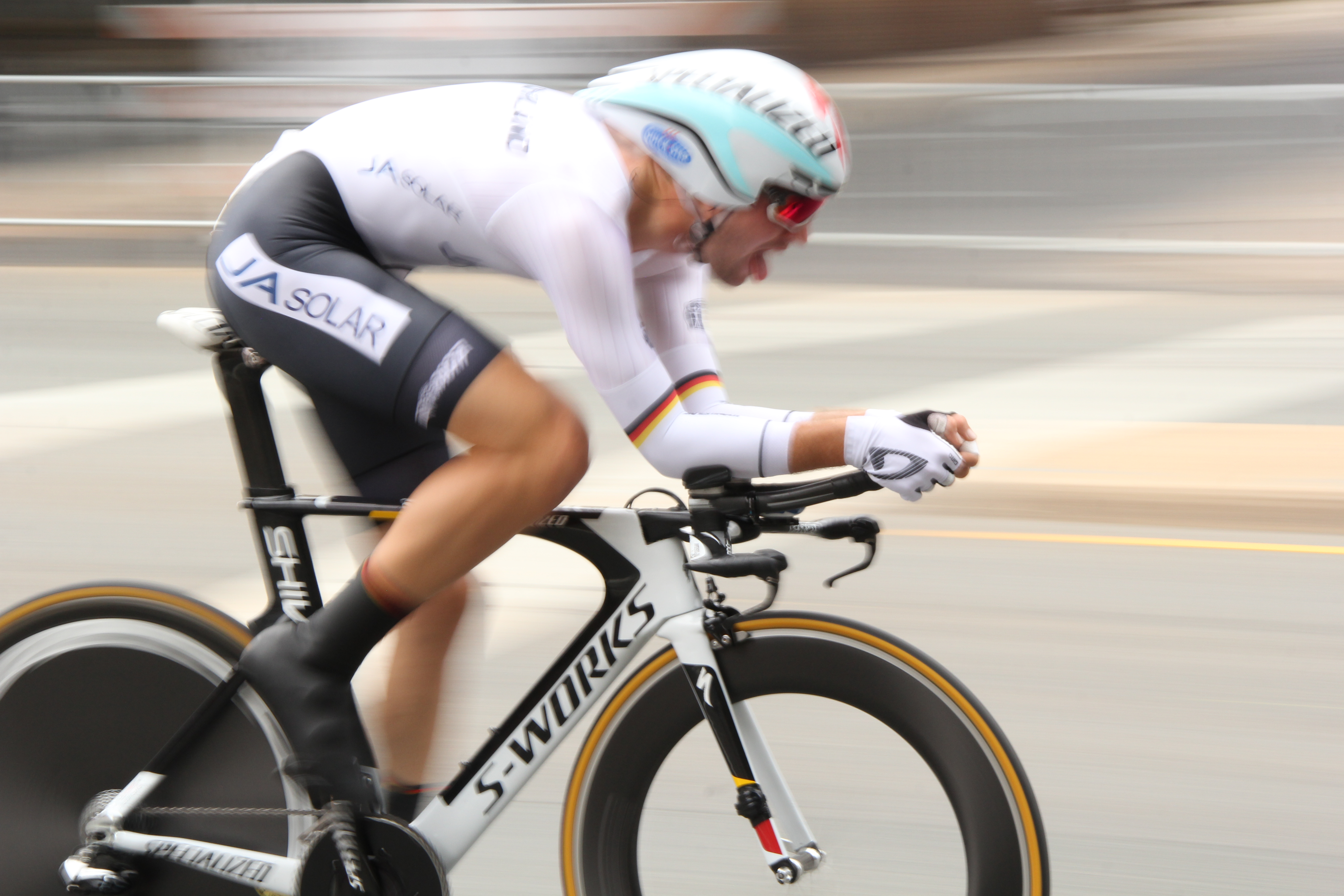 The world has come to Richmond. Welcome! Bienvenidos! Willkommen! 2015 UCI Road World Championships, in Richmond, United States